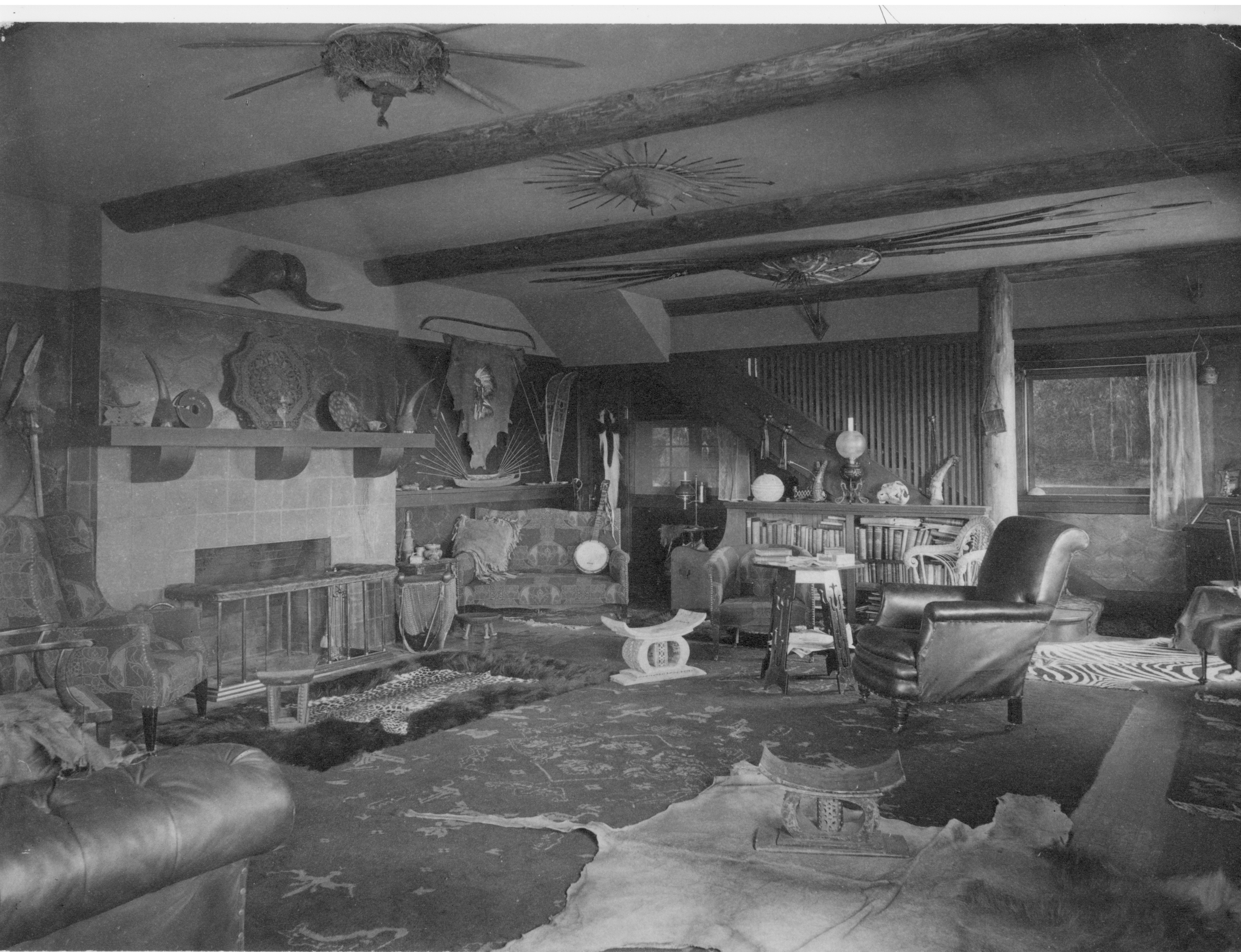 Residence of F.R. Burnham, 500 South San Rafael avenue, San Rafael Heights, Pasadena, California. Home built by Burnham in 1904.